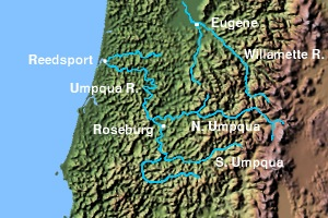 Umpqua River © 2004 Matthew Trump